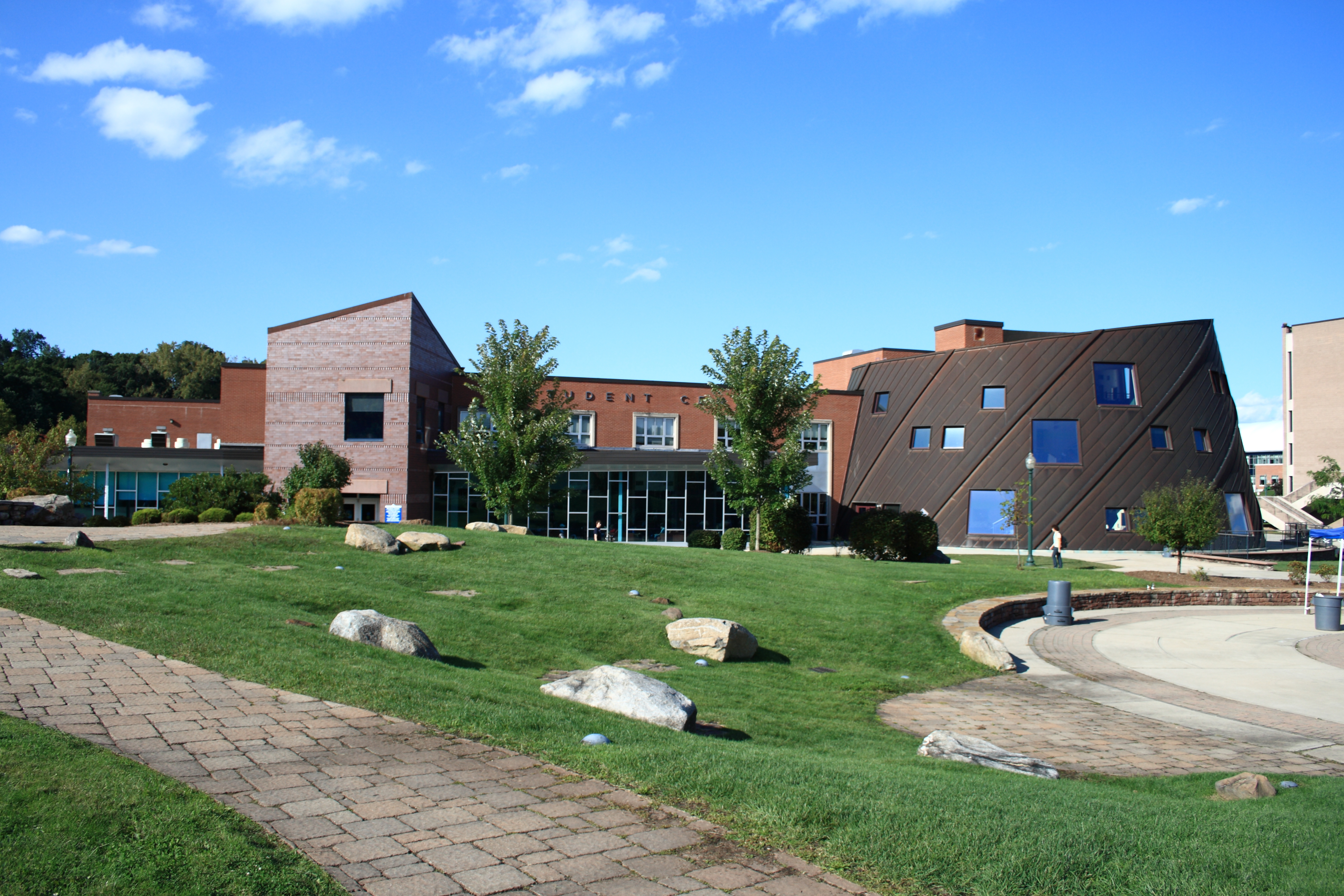 The Student Center on the Central Connecticut State University campus - Google Maps - Google Earth